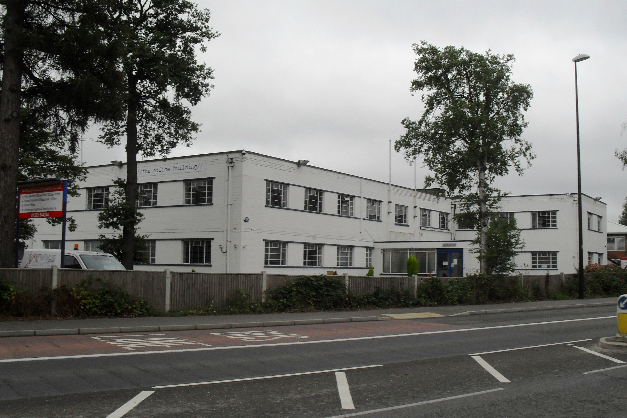 One of the many factories and other industrial buildings built by Crawley Development Corporation on the new Manor Royal Industrial Estate in Crawley, West Sussex, England, during the 1950s.